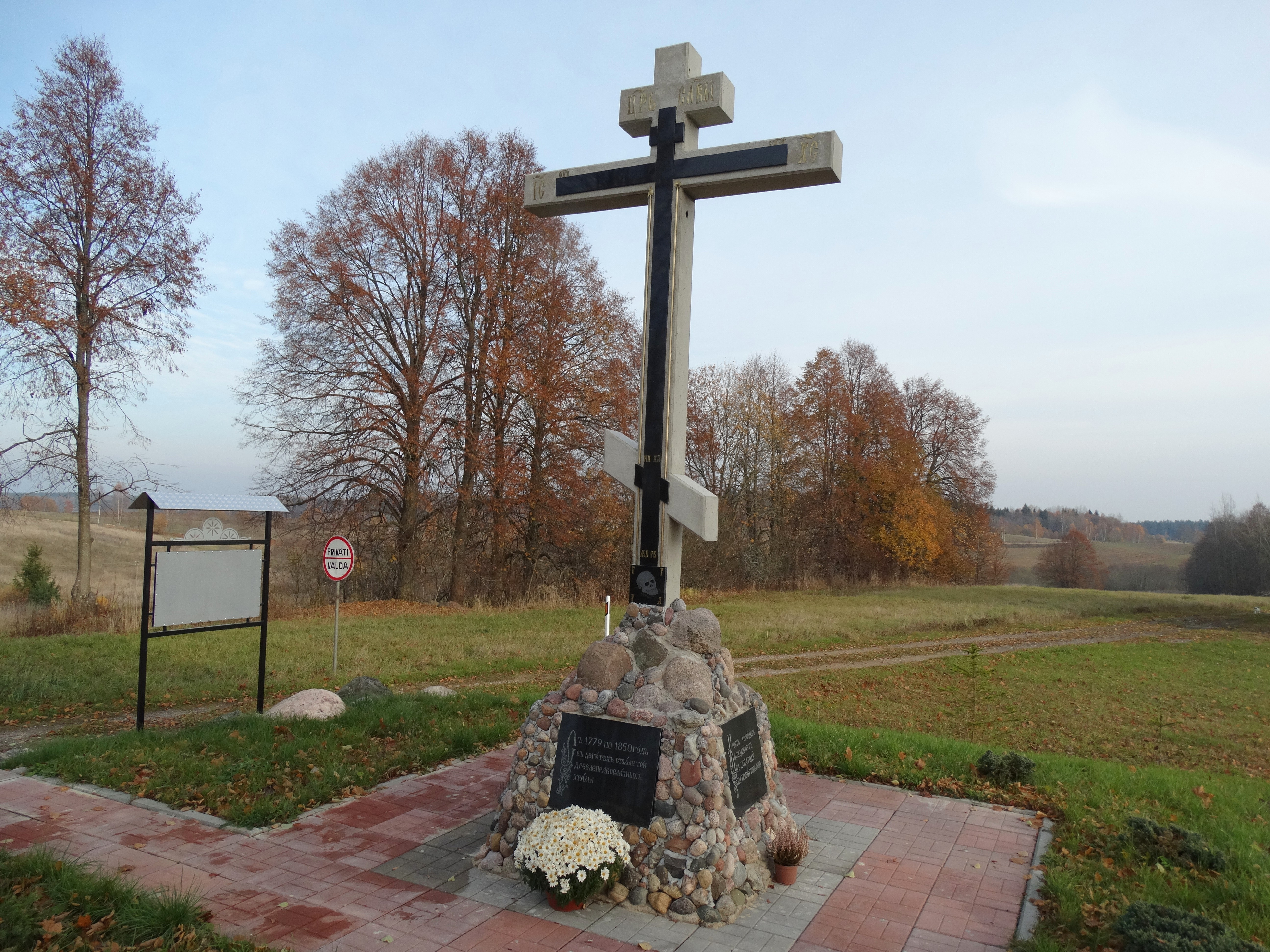 Memorial cross of Russian Old Believers, Degučiai, Zarasai district, Lithuania